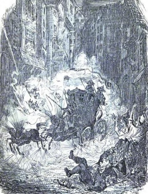 'West Bow: Midnight' by A A Ritchie